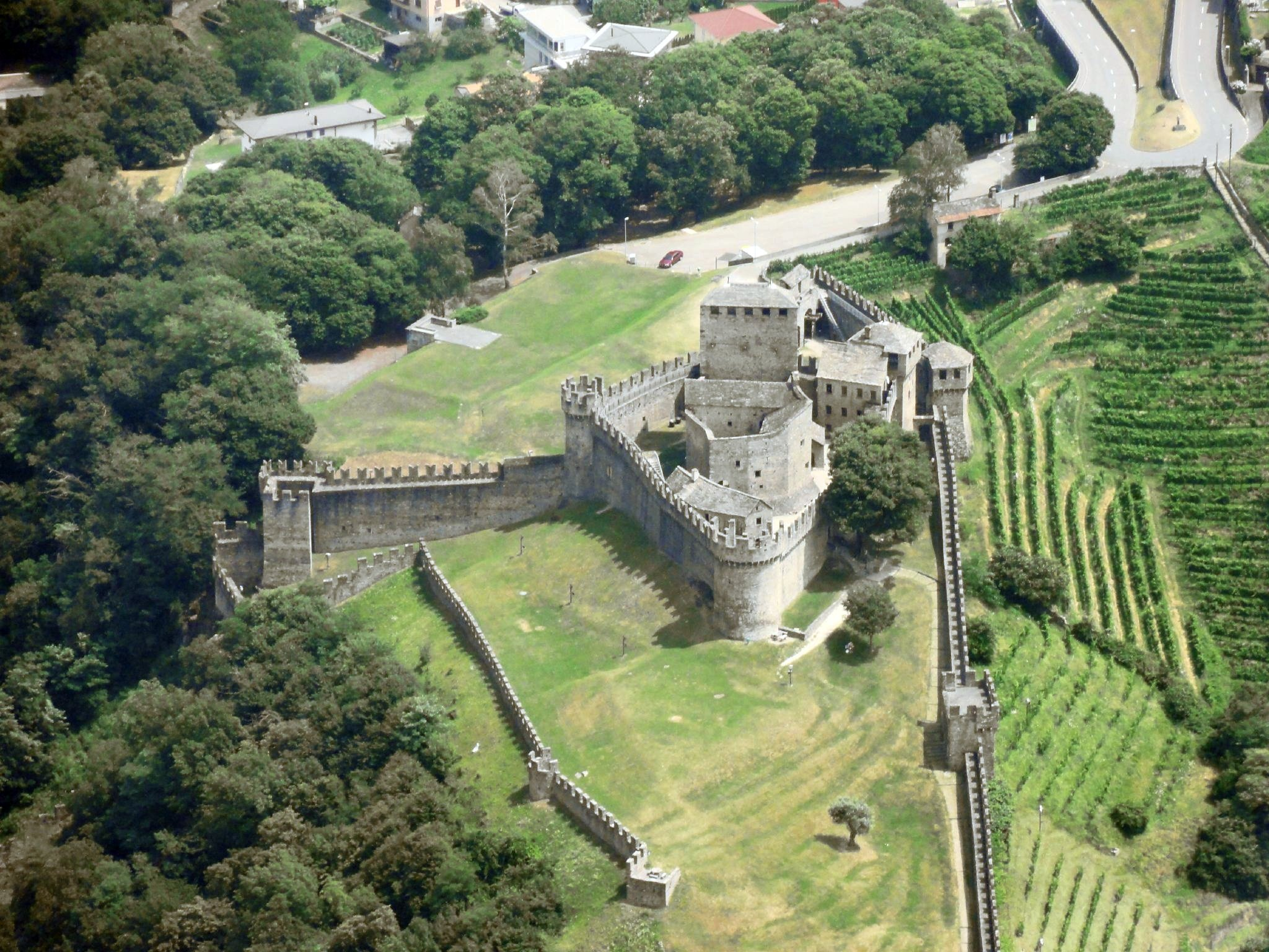 Aerial view of Montebello Castle in Bellinzona, Ticino, Switzerland